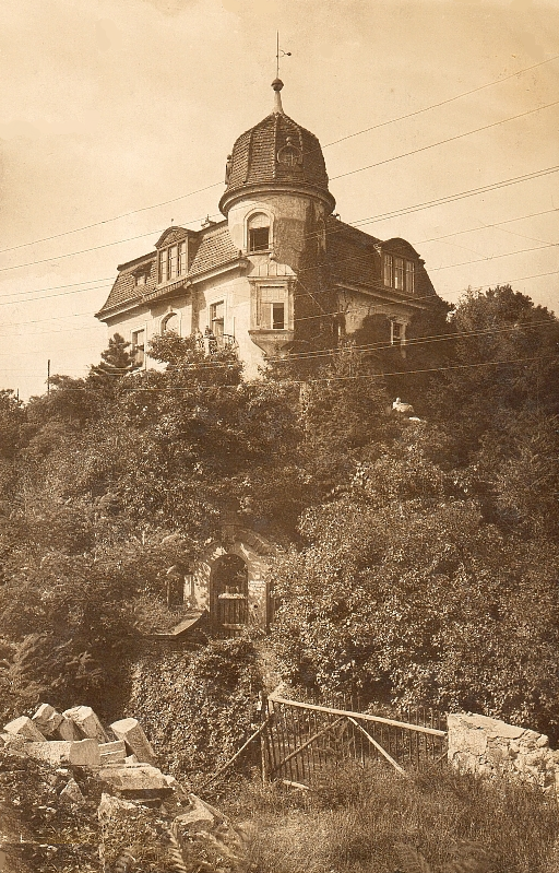 Germany, Saxony - Villa in the Lößnitz, around 1930